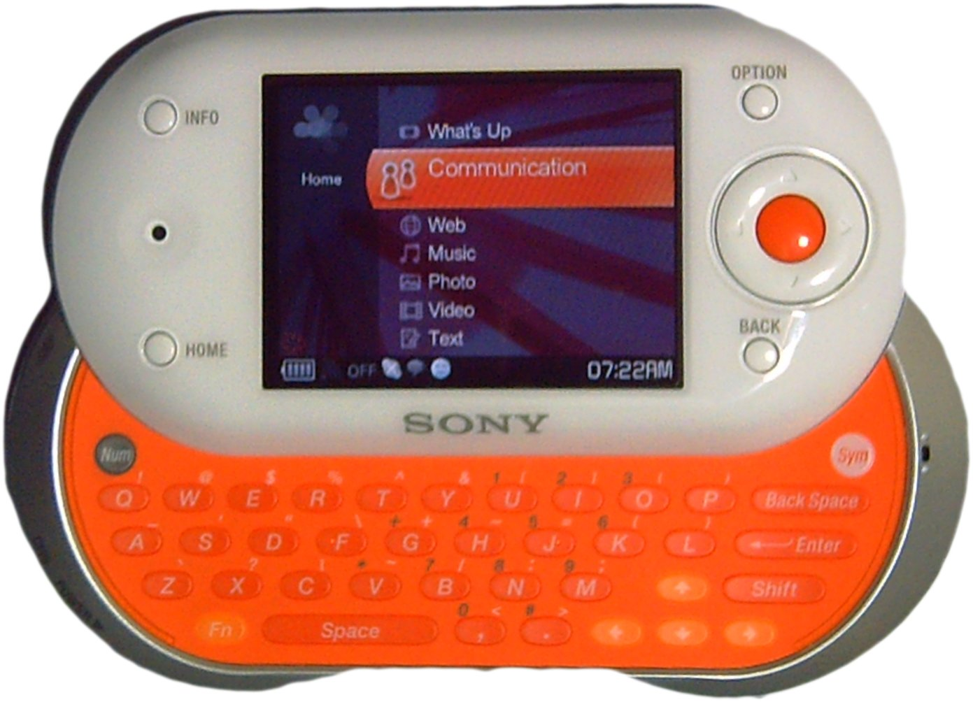 First generation Mylo Photographed by Stephen Gornick